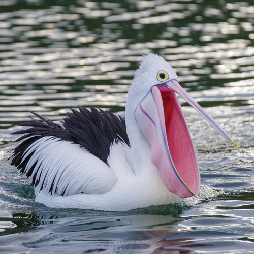 Australian pelican, July 2018, Lakes Entrance, Victoria. The large throat pouch is prominently displayed.